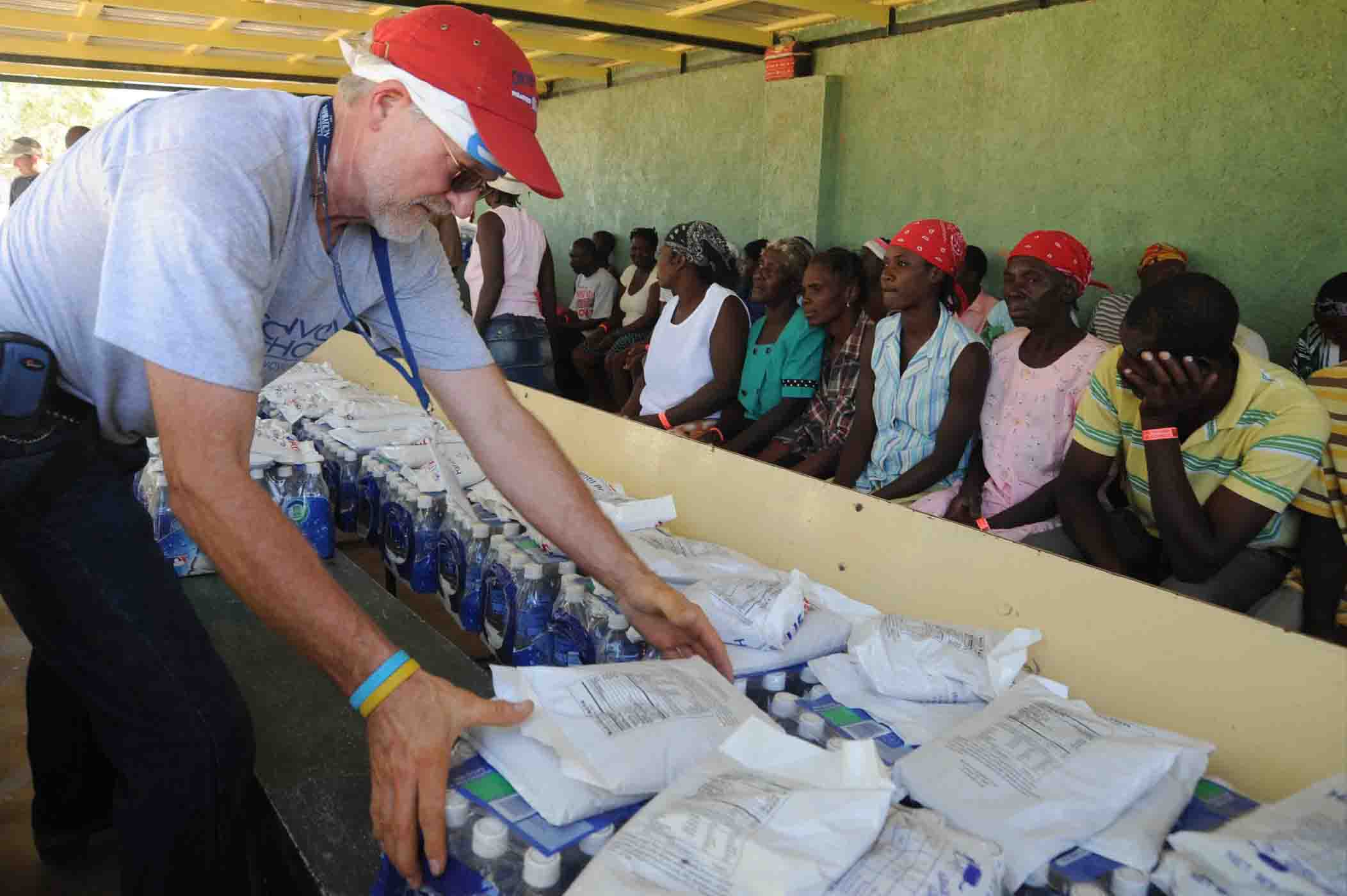 100122-N-6070S-008 Source Matelas, Haiti (Jan. 22, 2010) Bob Brewer, Convoy of Hope Volunteer, helps distribute food at a Mission of Hope complex in Source Matelas, Haiti Jan. 22, 2010. Convoy of Hope has helped provide over one million meals since the earthquake and plan to continue assisting the 11 thousand displaced people in the area. (U.S. Navy photo by Mass Communication Specialist 2nd Justin E. Stumberg/Released)